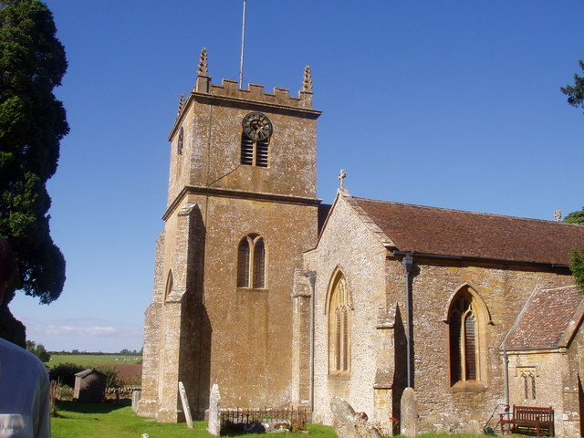 St. Martin Of Tours, West Coker Beautiful hamstone church with stained glass leaded windows